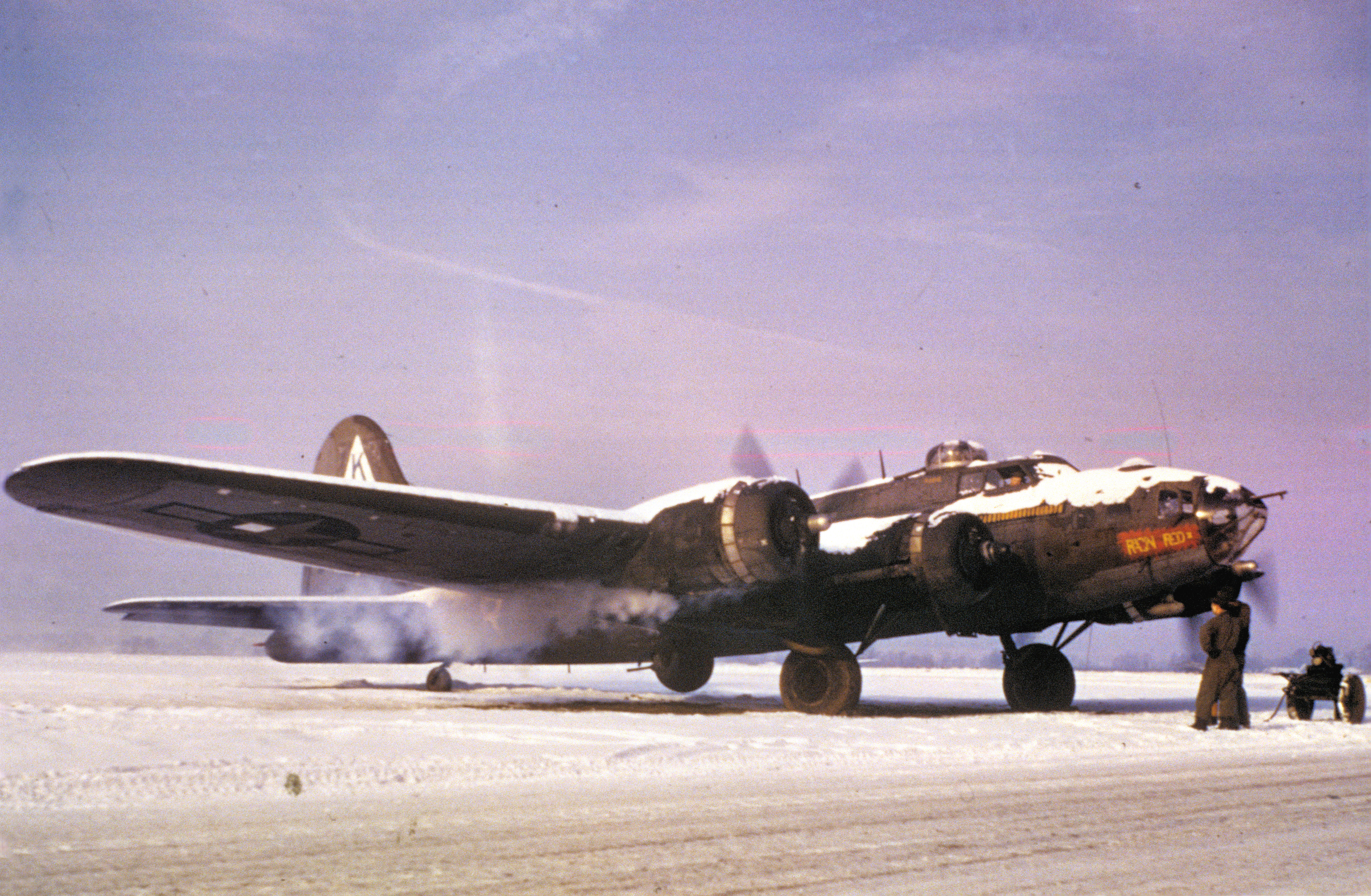 Ground personnel watch a B-17 Flying Fortress (FR-M, serial number 42-30298) nicknamed "Ragin' Red II" of the 379th Bomb Group start up in snow at Bassingbourn, January 1945.